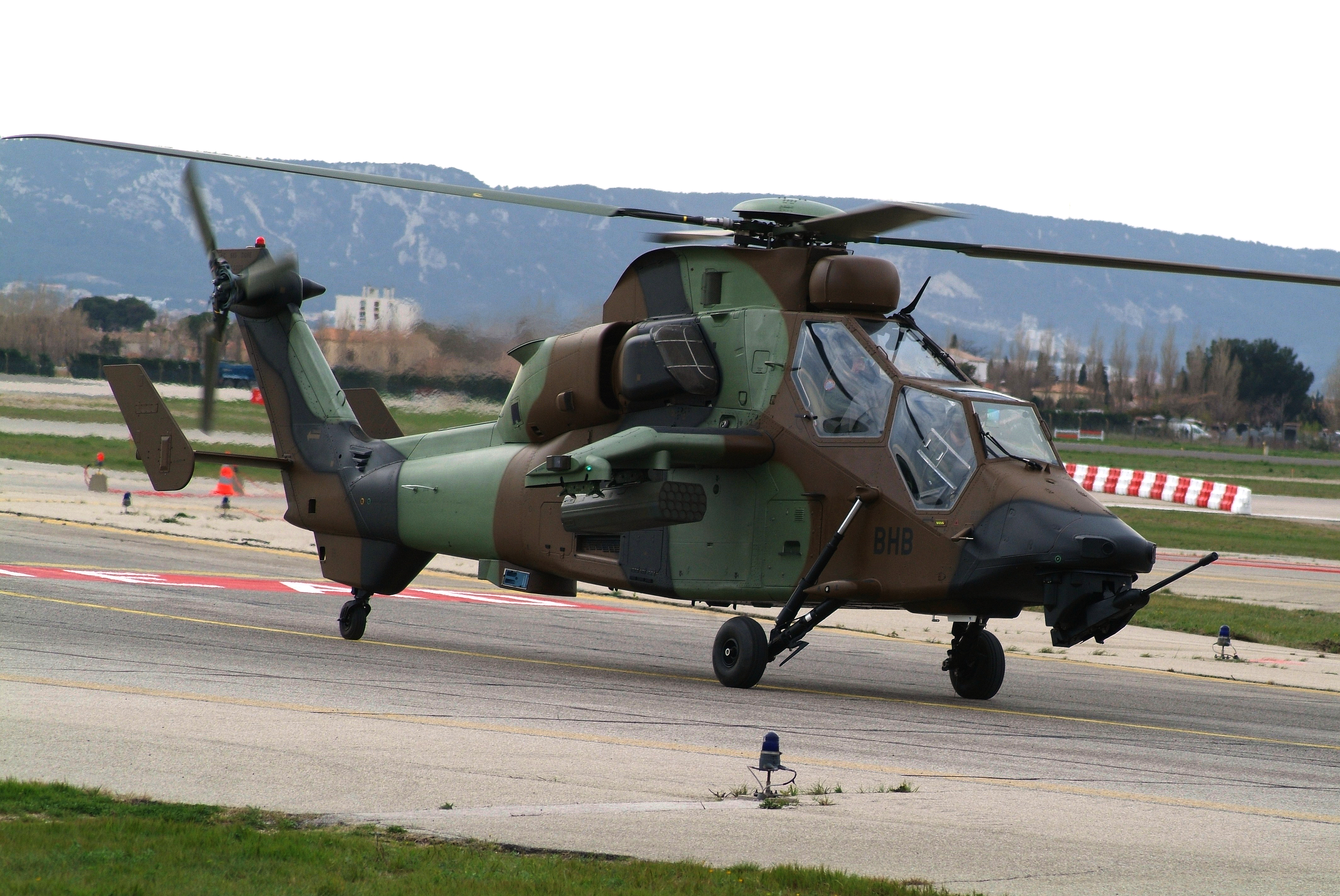 Eurocopter EC.665 Tigre of 5 RHC No. 2009/BHB Marignane